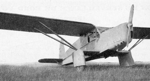 Hanriot H.180 photo from L'Aerophile August 1934